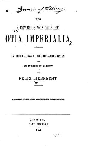 Otia Imperialia, a work by Gervais of Tilbury (1214)